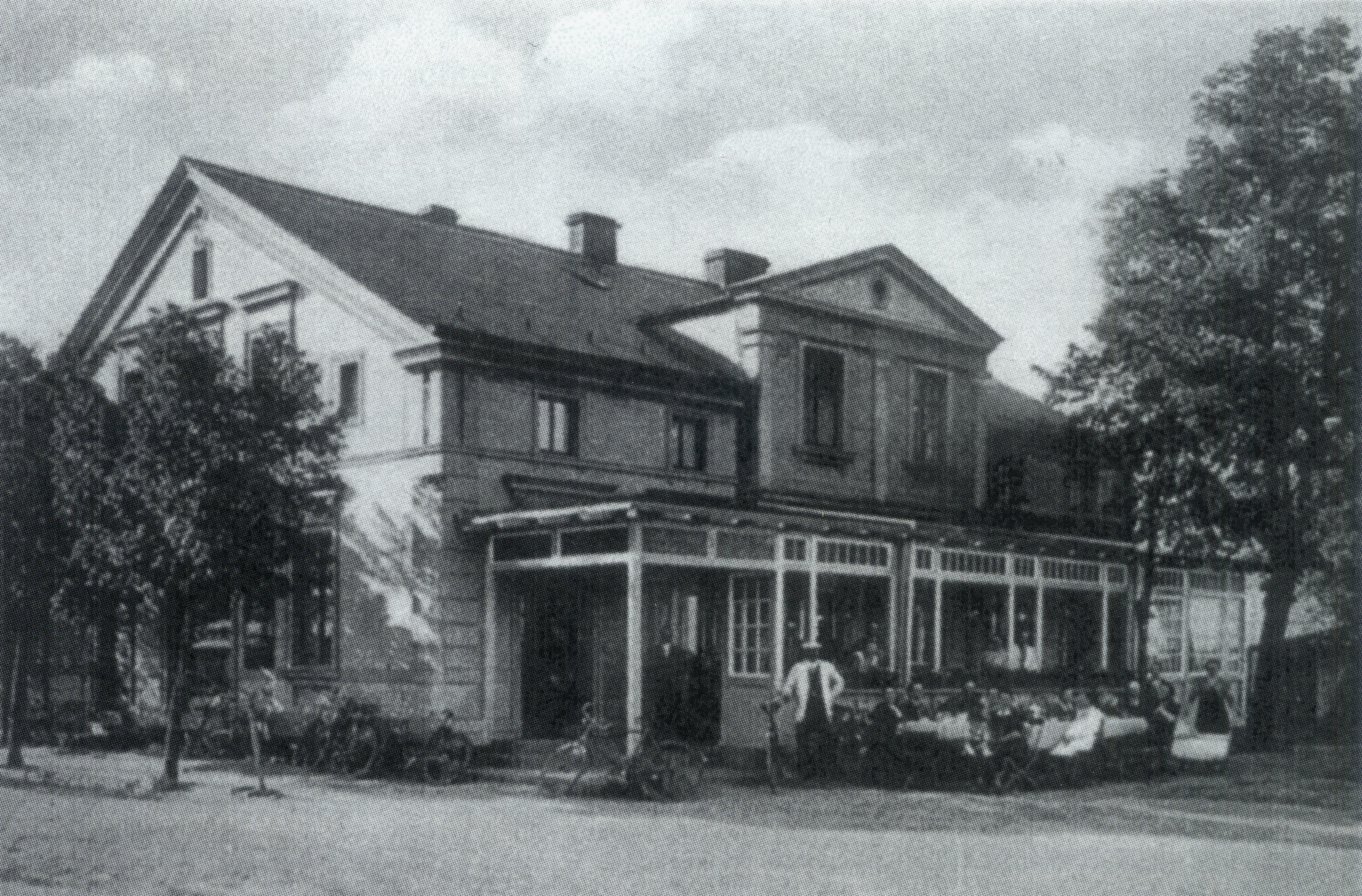 Restaurant "Zur schönen Aussicht" in Gross Neuendorf, Brandeburg, Germany